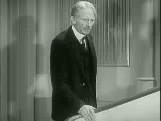 Cropped screenshot of Walter Brennan from the trailer for the film Affairs of Cappy Ricks